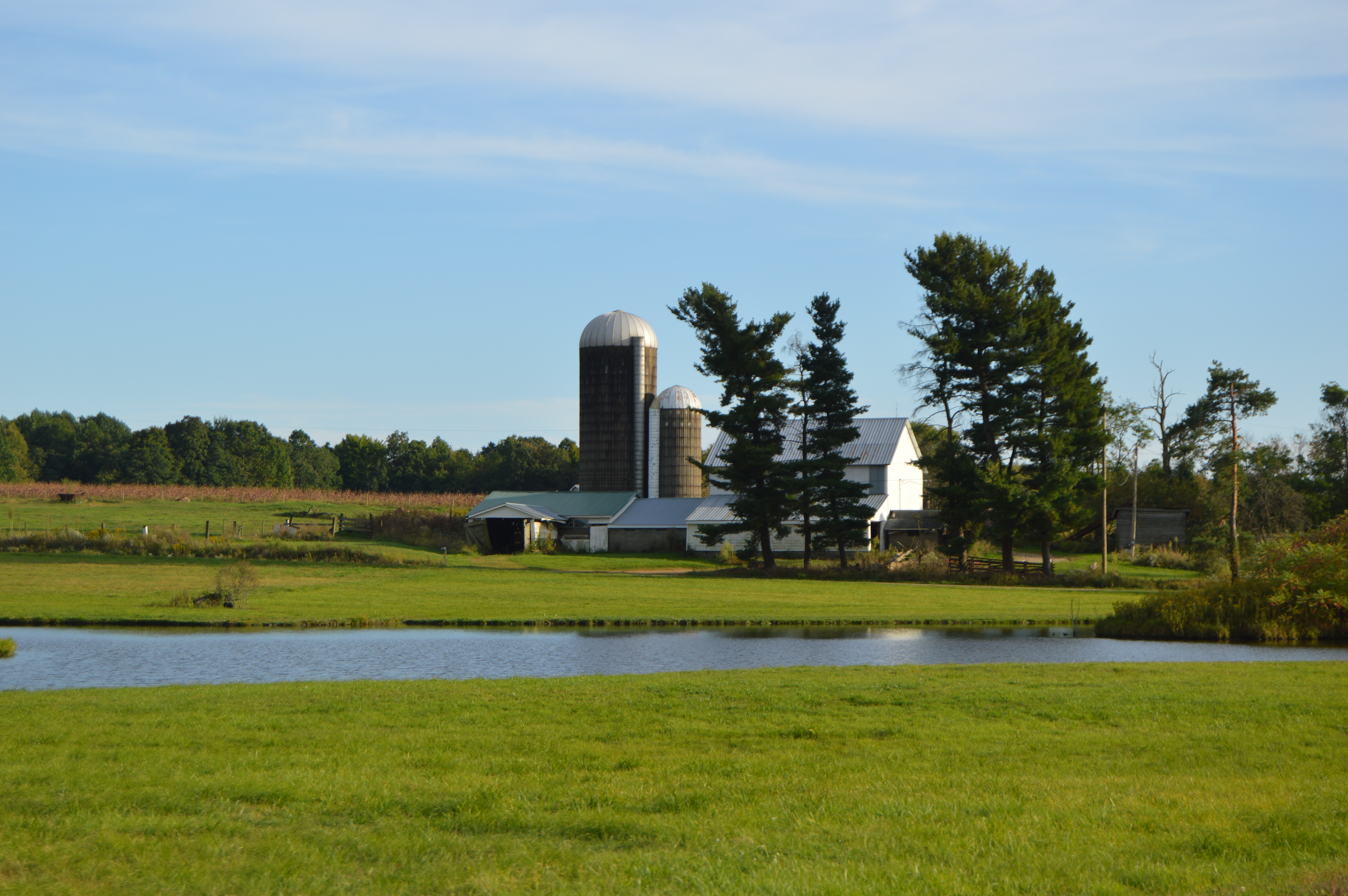 Agricultural scene along Carter Road south of Karwash Road in southwestern French Creek Township, Mercer County, Pennsylvania, United States.